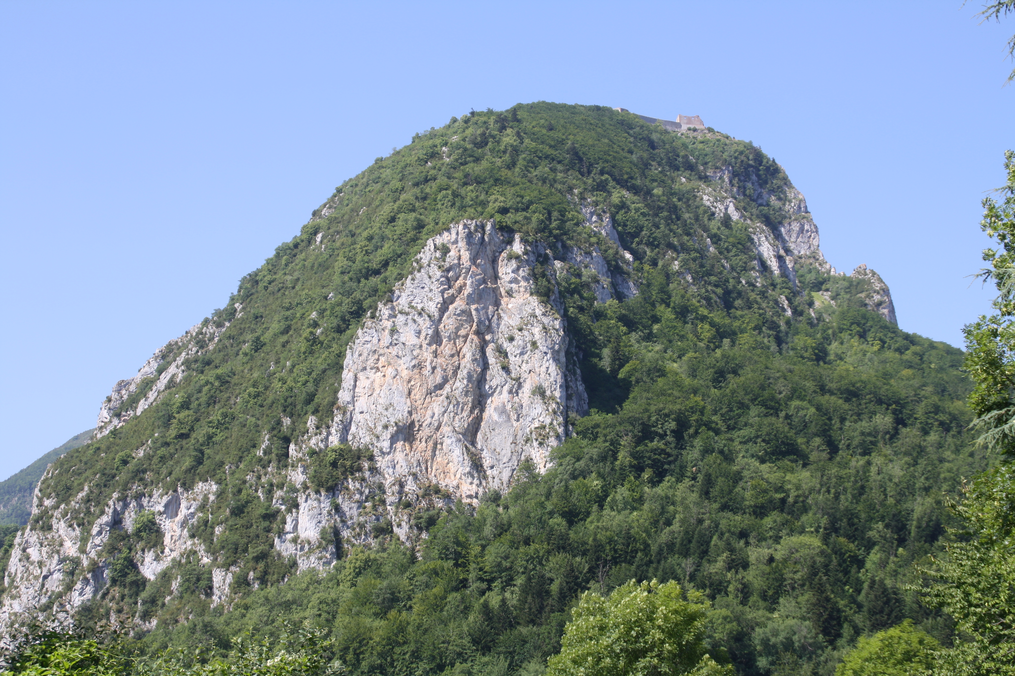 The Roc de la Tour from Serralongue way.